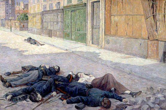 Painting: Maximilien LUCE, Une rue à Paris en Mai 1871 ou La Commune. 1903-1905 (Musée d'Orsay) [1]